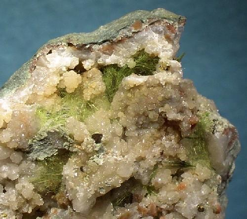 Jamborite Locality: Halls Gap, Lincoln County, Kentucky, USA (Locality at ) Size: 4.1 x 3.5 x 2.9 cm. Jamborite is an ULTRA RARE alteration product of millerite, found in few localities worldwide. This showy and excellent geode has several vugs lined with yellow-green jamborite needles in pleasing association with quartz and dolomite. The richest and best vug is 9 mm across. Jamborite is a pseudomorph of millerite. VERY RARE! Ex. Carlton Davis collection.